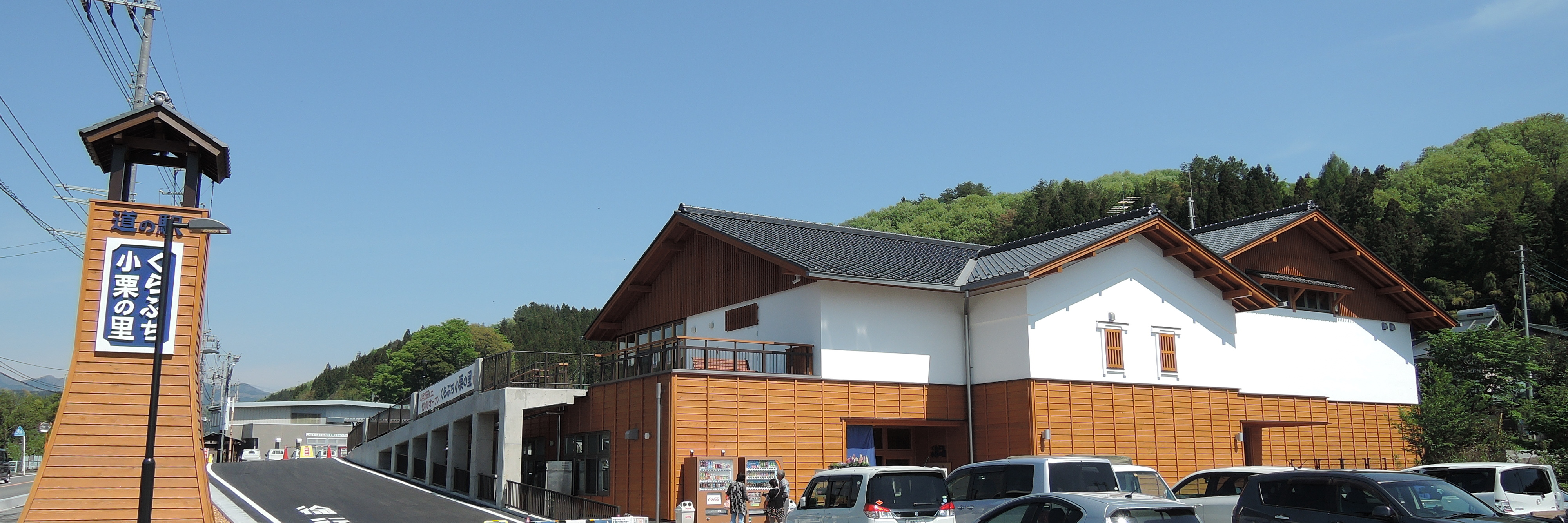 Roadside station Kurabuchi Oguri's village,Gunma prefecture,Japan